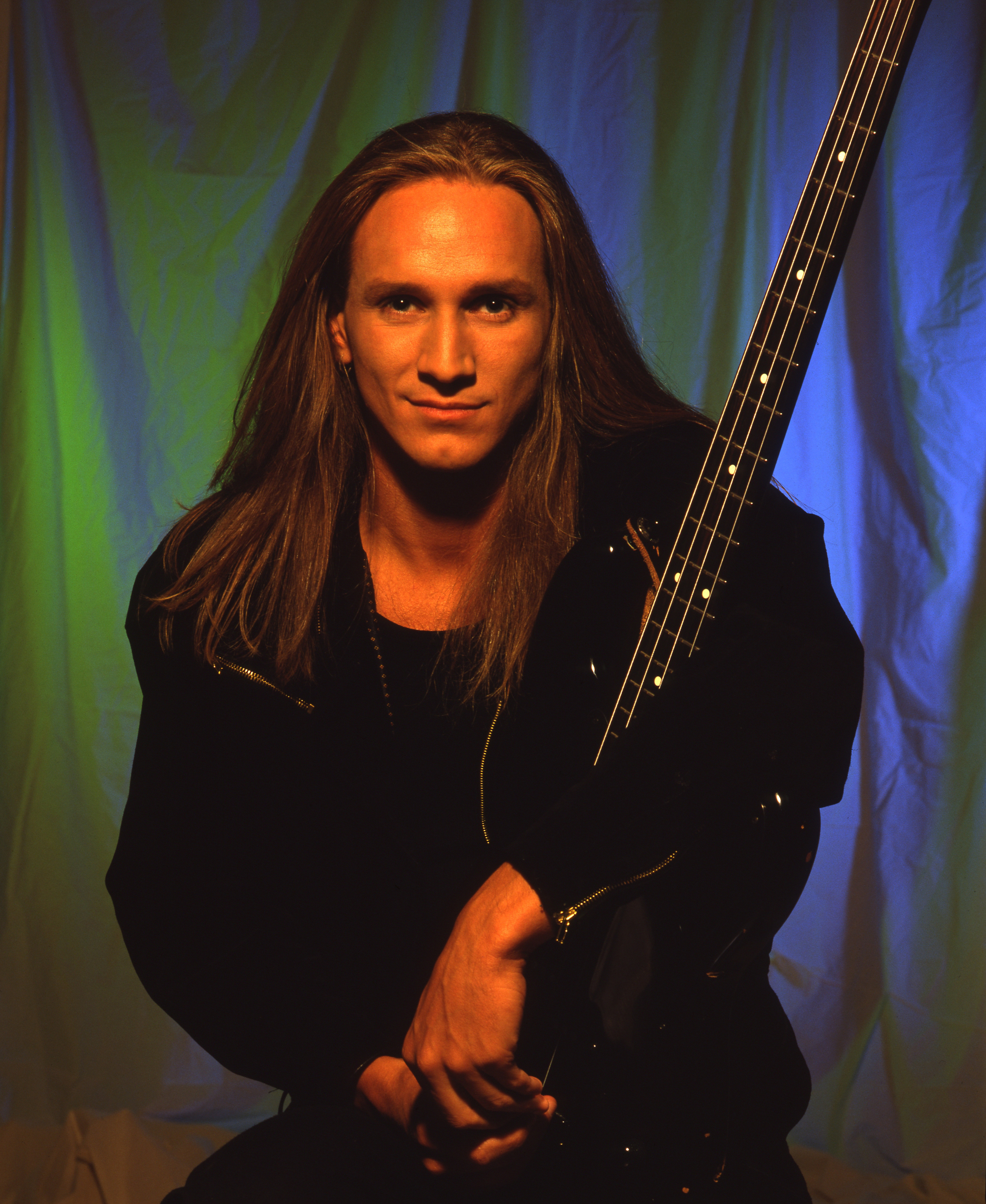 Promotional pic of bass player Marcel Jacob.